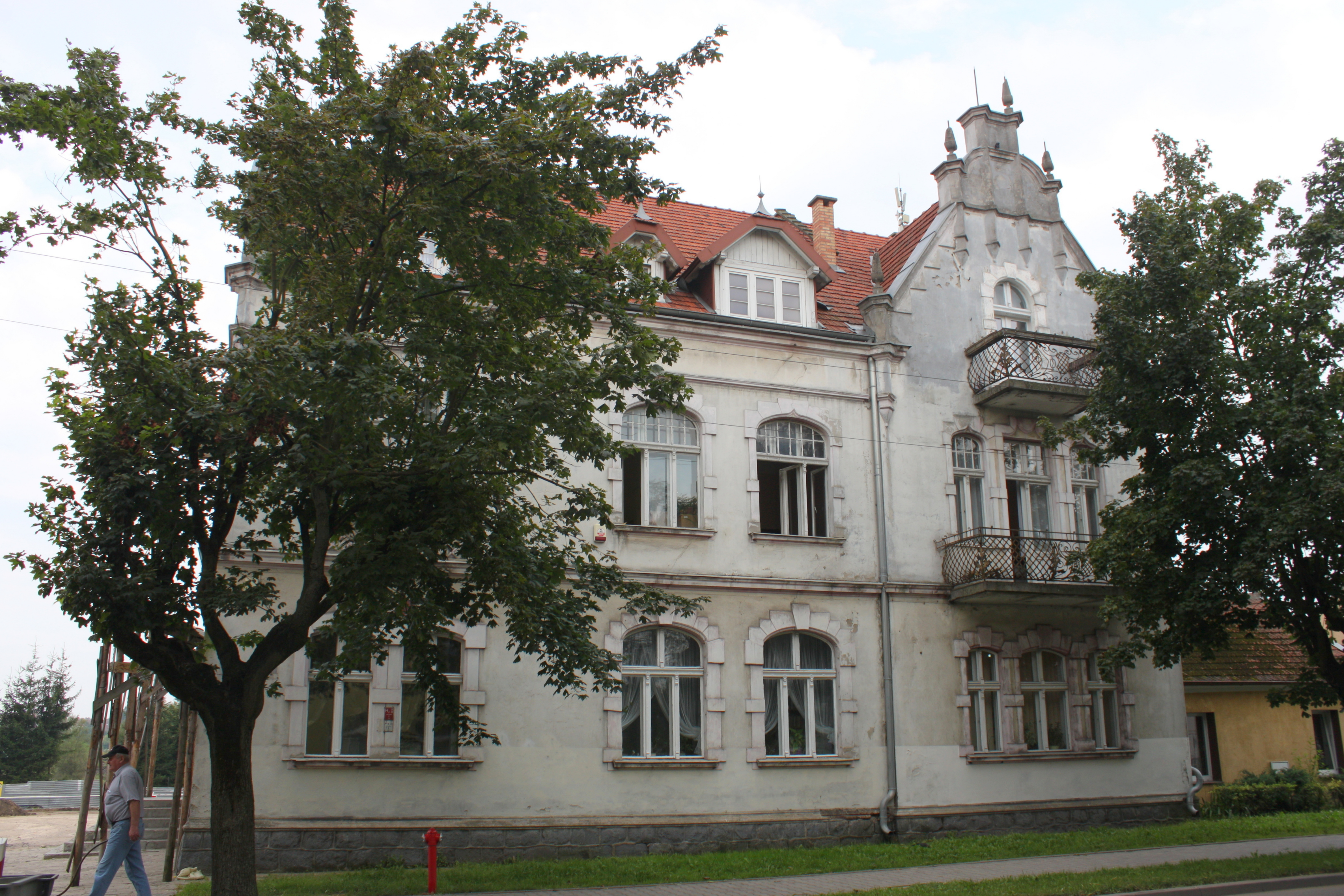 Building in Biskupiec, 3 Niepodległości Avenue.